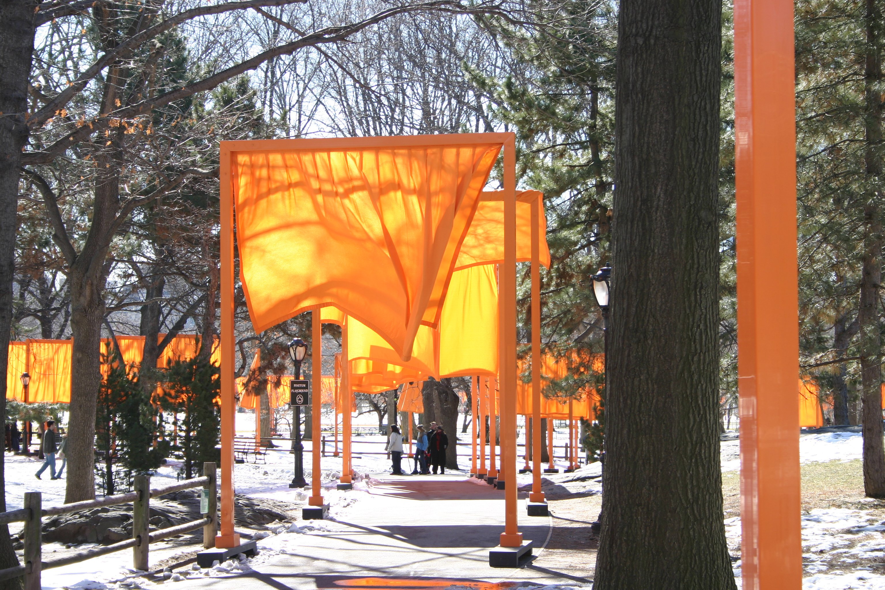 The Gates